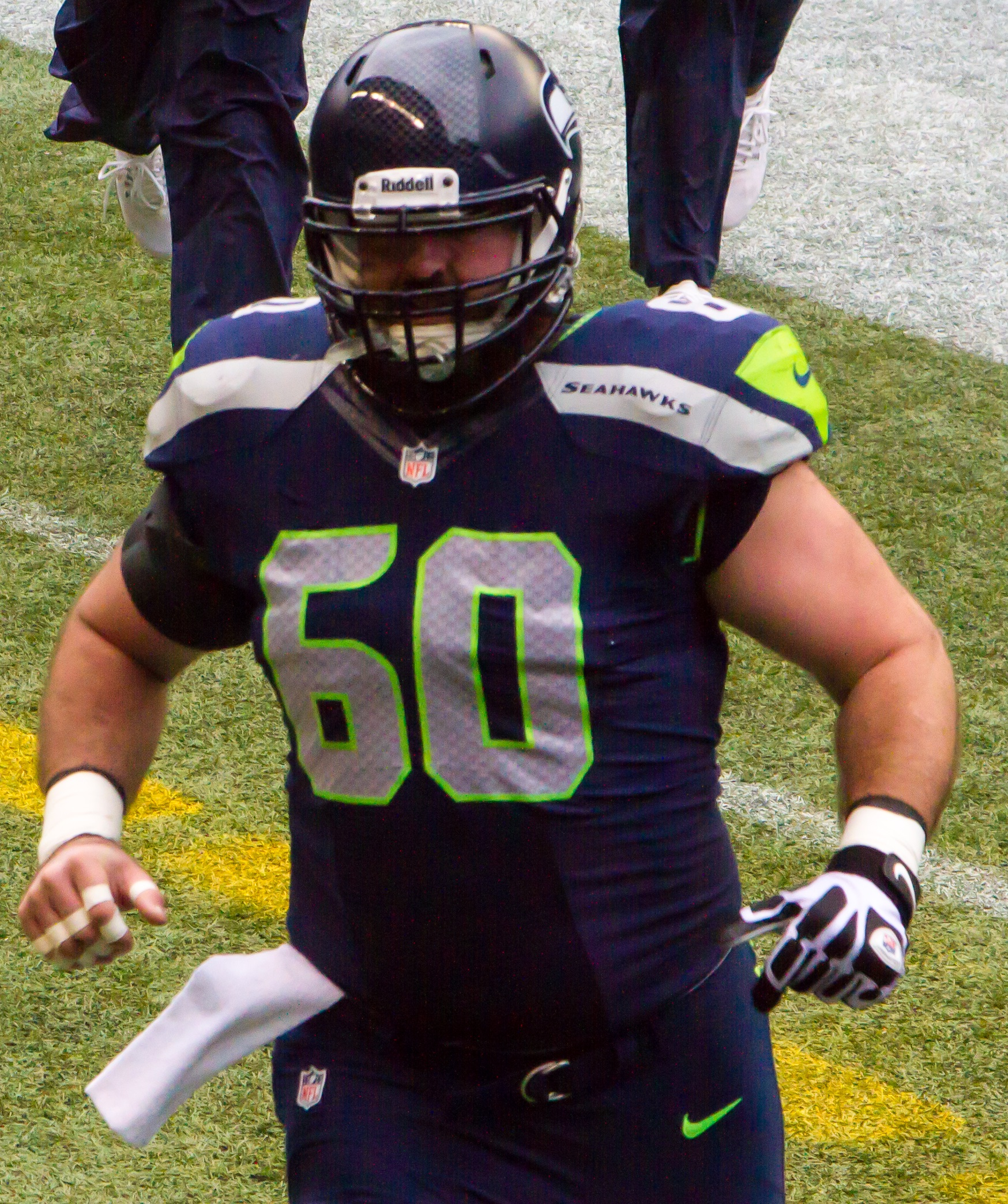 Max Unger, Seahawks vs Rams 12.29.13